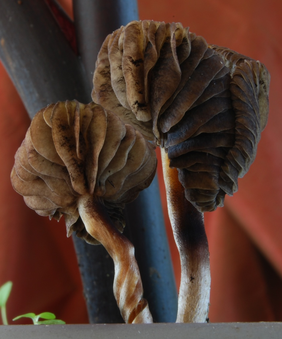 Psilocybe moravica mushroom